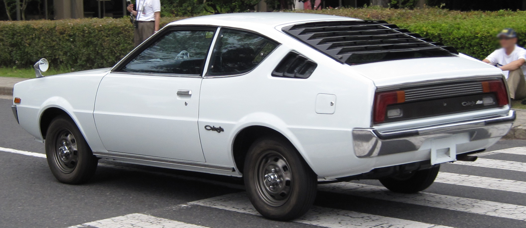 This is a photo of a Mitsubishi Celeste I took outside the museum for the Mitsubishi "Passenger Car Engineering Center" in Okazaki-city, Aichi, Japan